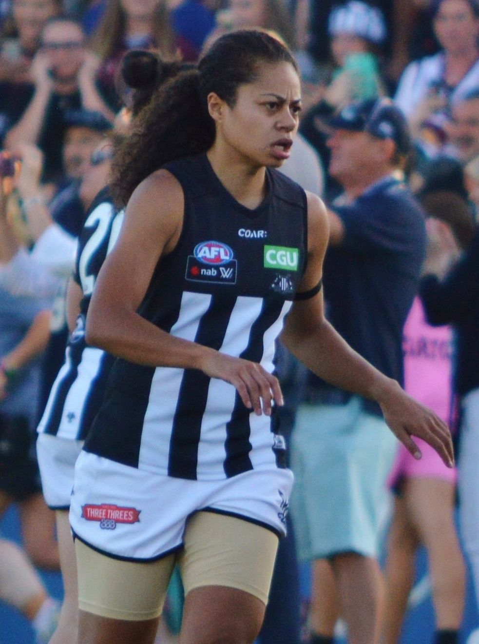 Helen Roden during the Round 1 2017 AFL Women's match between Carlton and Collingwood at Princes Park